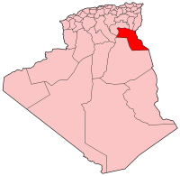 Map of Algeria showing El Oued province.